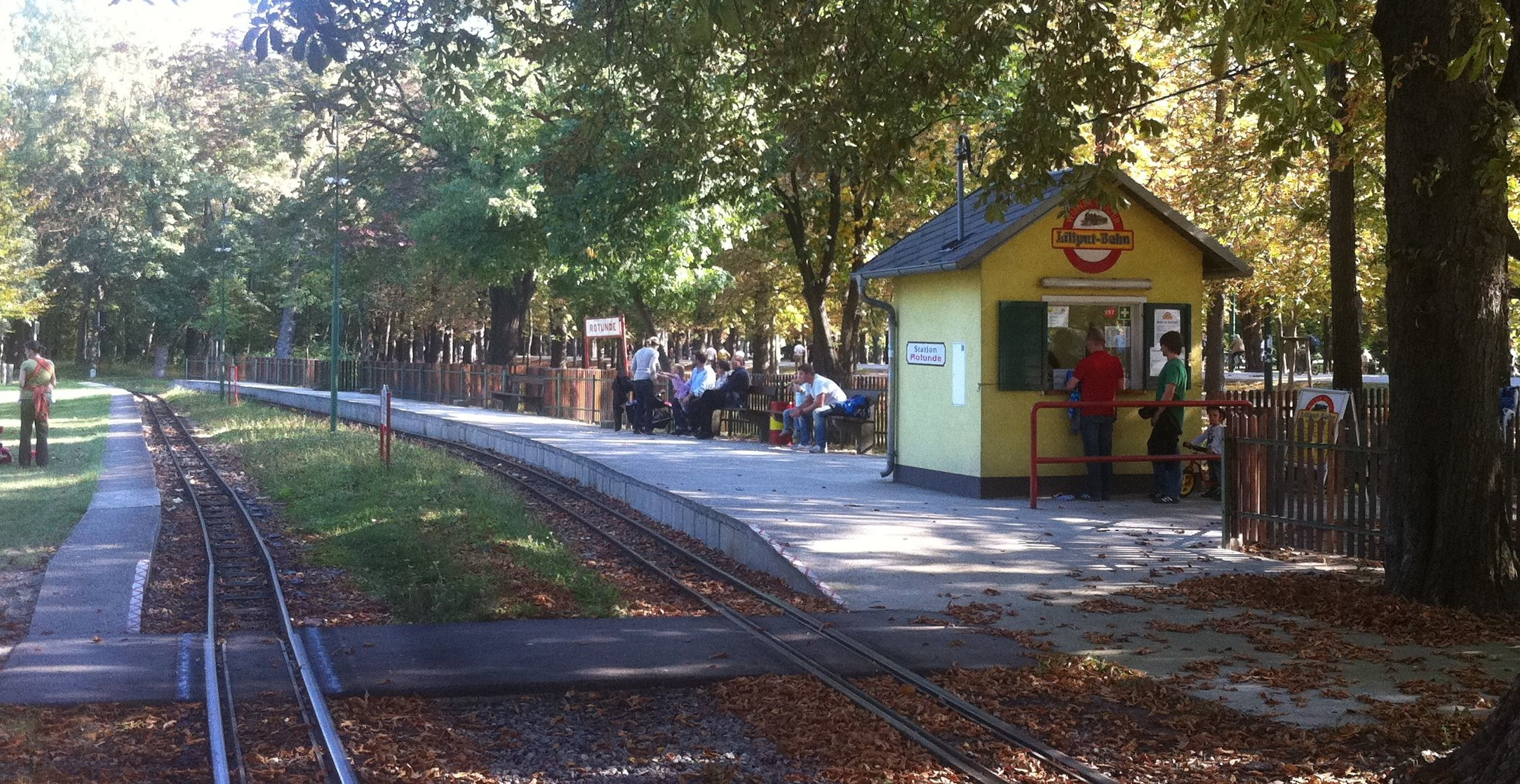 The Rotunda railway station of the Prater Liliputbahn, a 15 inch gauge railway in Vienna, Austria.